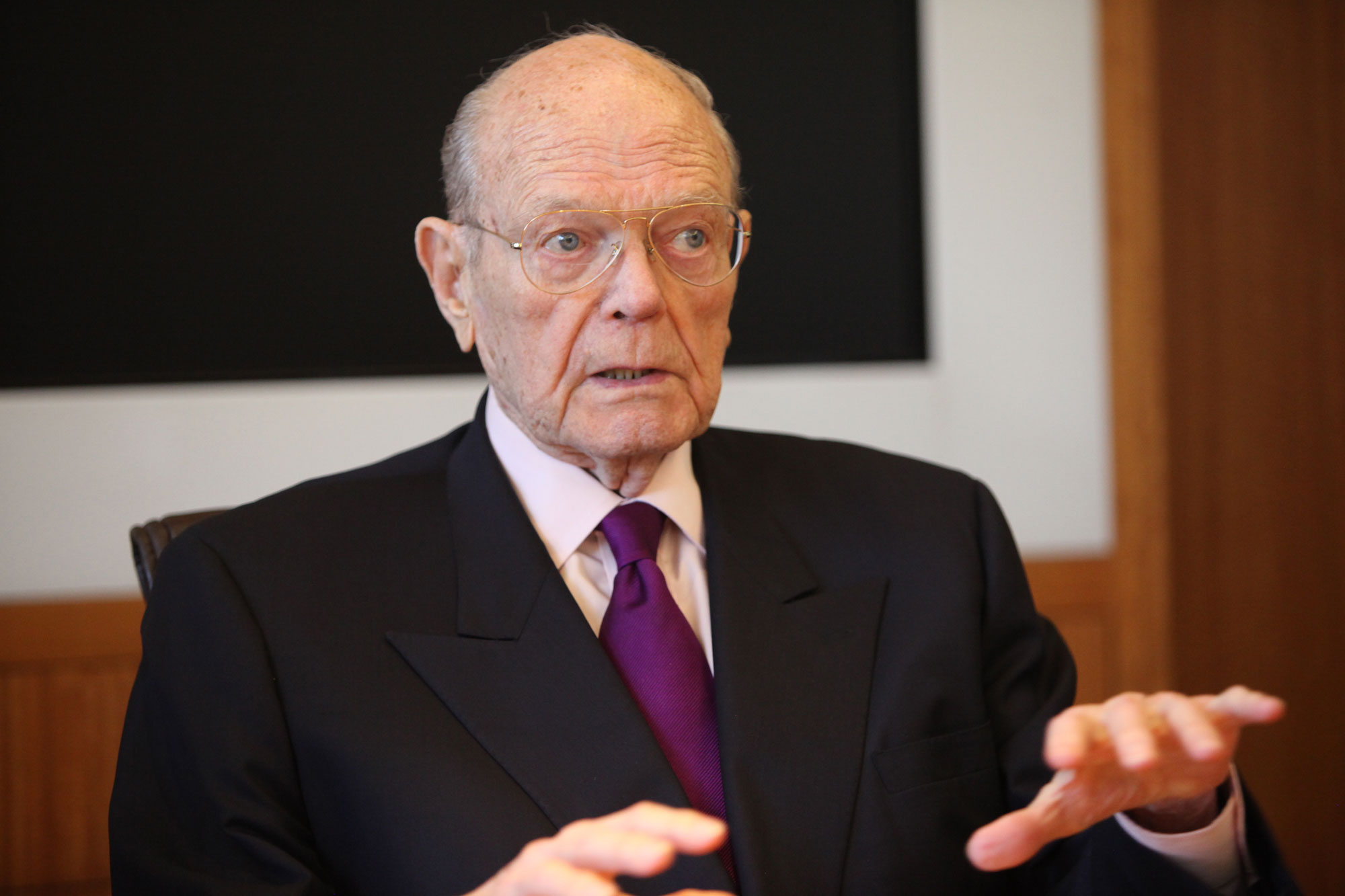 The American businessman David Morgenthaler in his office at Menlo Park (California)